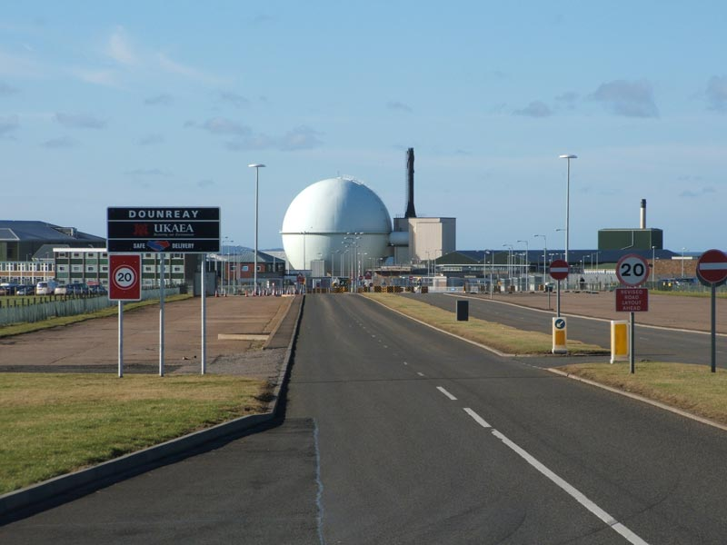 Taken and donated by user:Guinnog